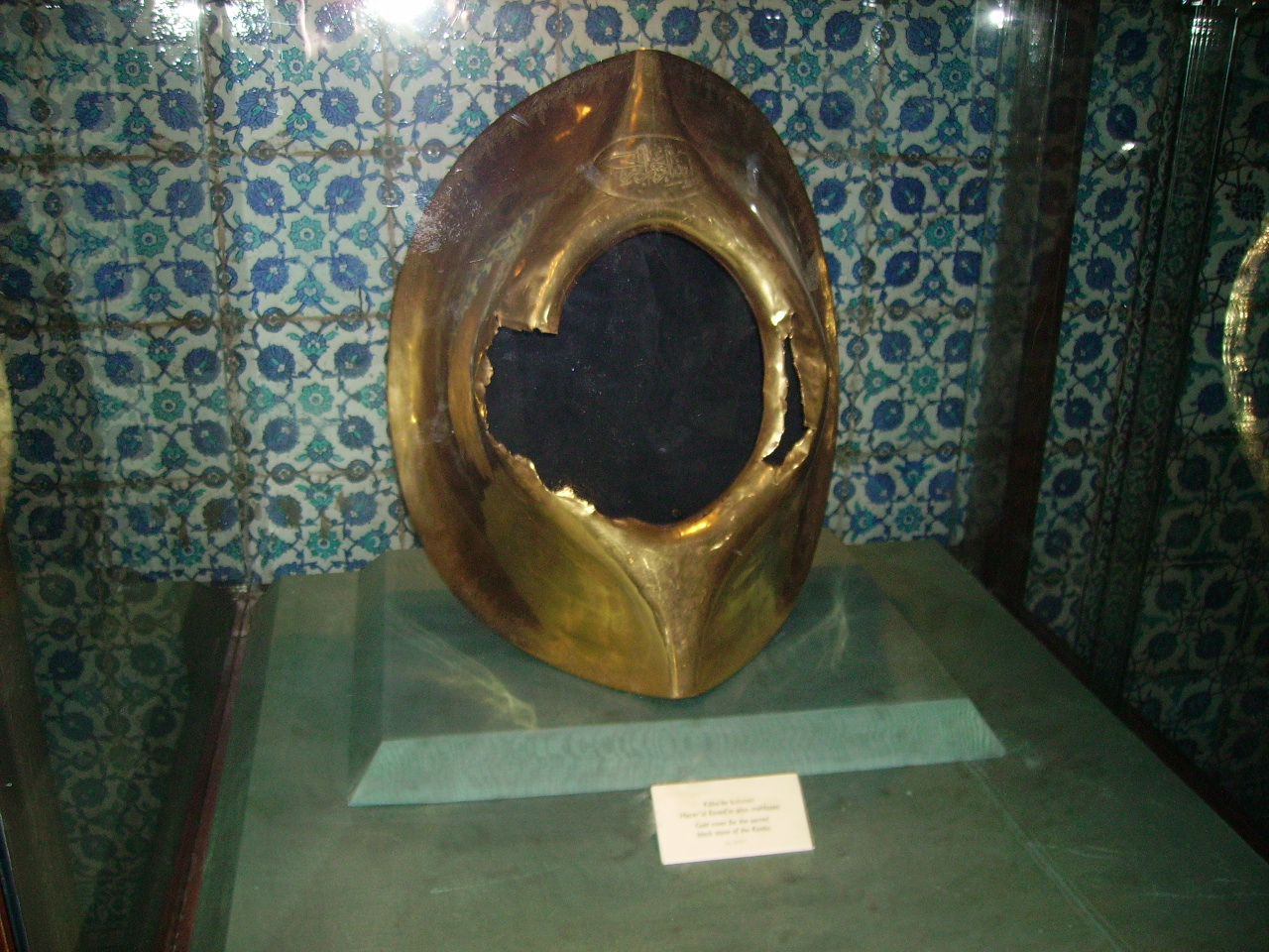 Golden plate, which would originally have surrounded the Black Stone, from the Ka'aba in Mecca.